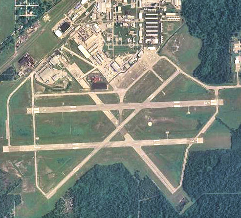 Bartow Municipal Airport - Florida